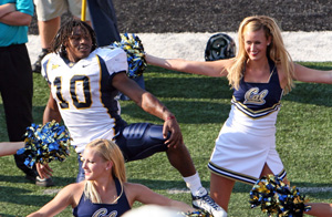 California Golden Bears at Oregon State Beavers in 2006. Marshawn Lynch with the Cal Dance Team.